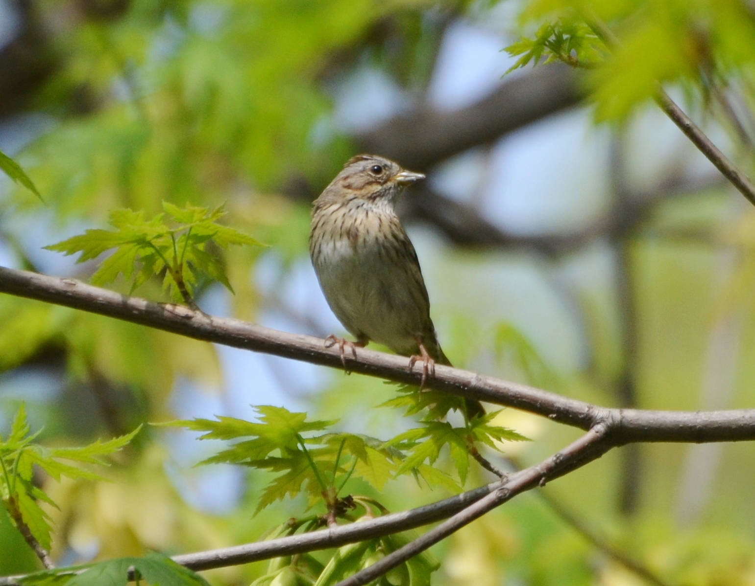 Tower Grove 4/27/14